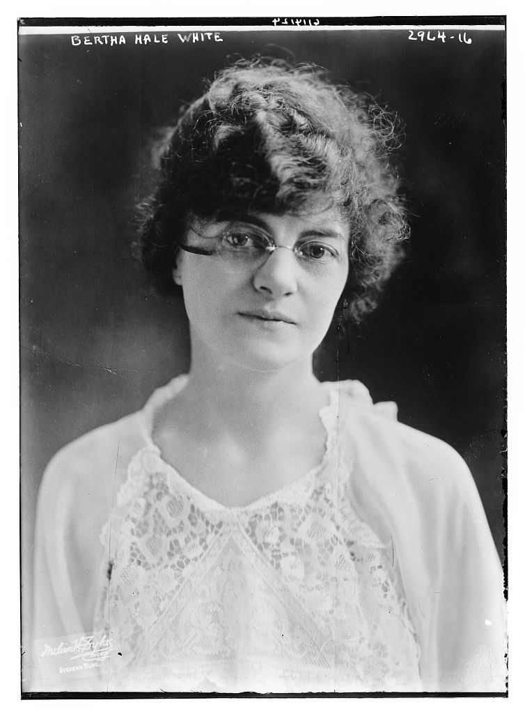 Bertha Hale White (LOC) Bain News Service,, publisher. Bertha Hale White [between ca. 1910 and ca. 1915] 1 negative : glass ; 5 x 7 in. or smaller. Notes: Title from unverified data provided by the Bain News Service on the negatives or caption cards. Forms part of: George Grantham Bain Collection (Library of Congress). Format: Glass negatives. Repository: Library of Congress, Prints and Photographs Division, Washington, D.C. 20540 USA, General information about the Bain Collection is available at Persistent URL: Call Number: LC-B2- 2964-16